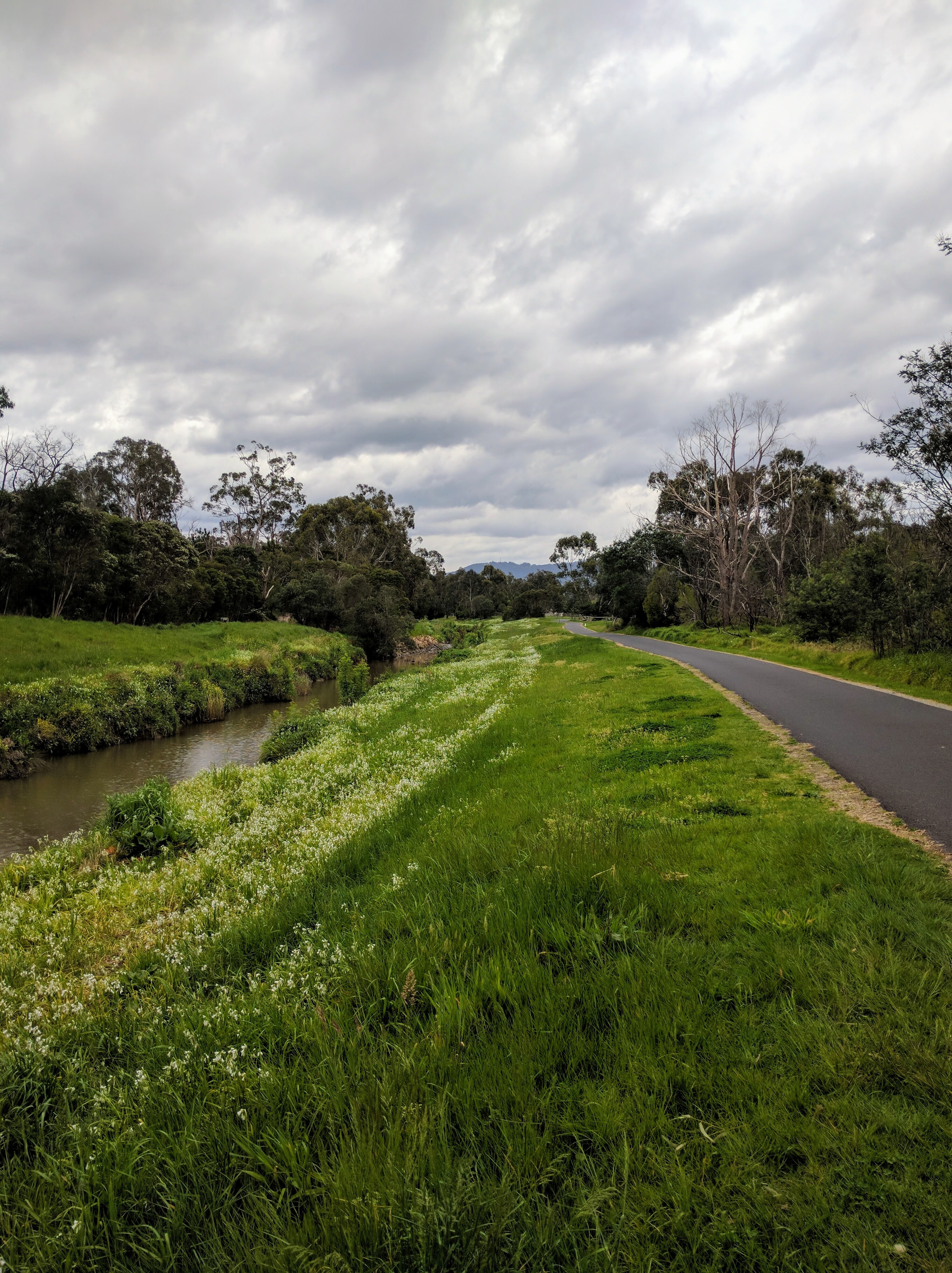 Dandenong Creek Trail next to the creek in an open section in Heathmont, Victoria, Australia